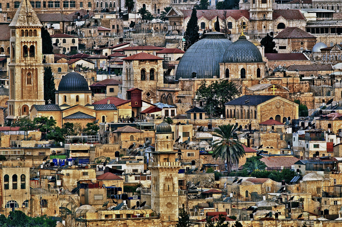 Old Jerusalem, photoshop artwork